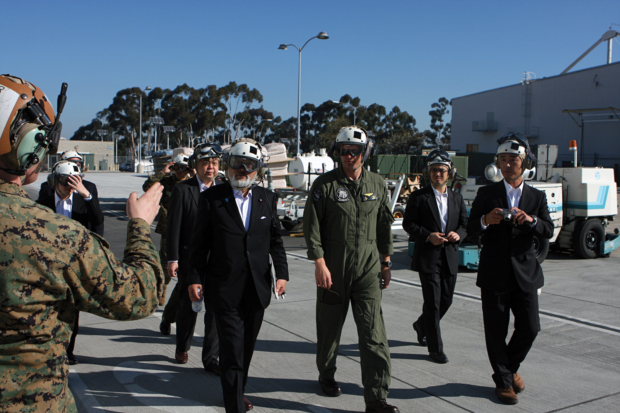 Shōzō Azuma, Member of the House of Representatives, visited the Marine Corps Air Station Miramar to learn more about the MV-22B in San Diego City, California State on January 19th, 2012.